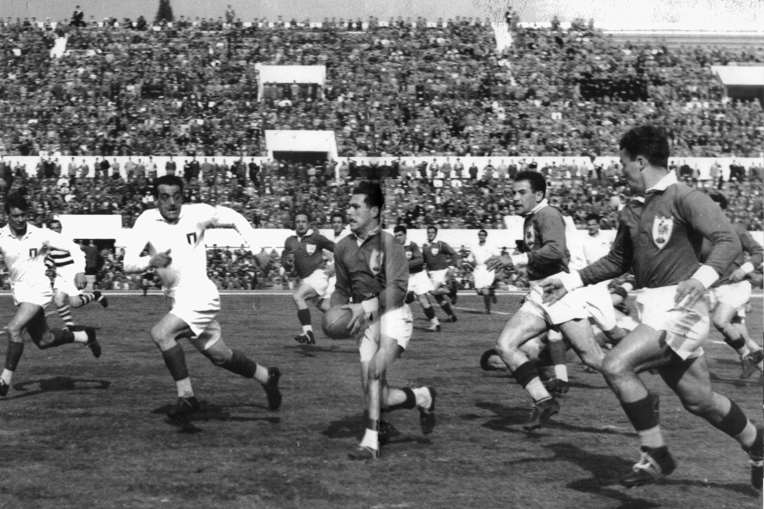 1954 Rugby union European Cup final between Italy and France at the Stadium of the 100 000 (now Stadio Olimpico) in Rome. France won the match 39-12. In this picture Frenchman Roger Martine keeps the ball assisted by his teammmates Maurice Prat et Gérard Murillo. Italian Paolo Rosi (left) e Pietro Stivano attempt to block the French attack.